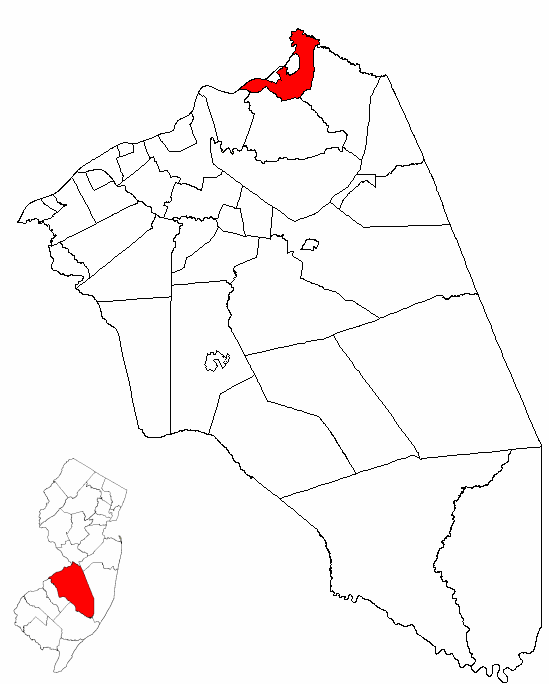 Map of Burlington County highlighting Bordentown Township